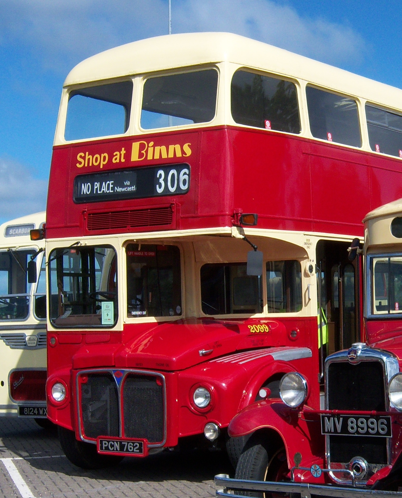 Preserved Northern General Routemaster bus 2099 (reg. PCN 762), pictured at the 2009 Metrocentre bus rally.